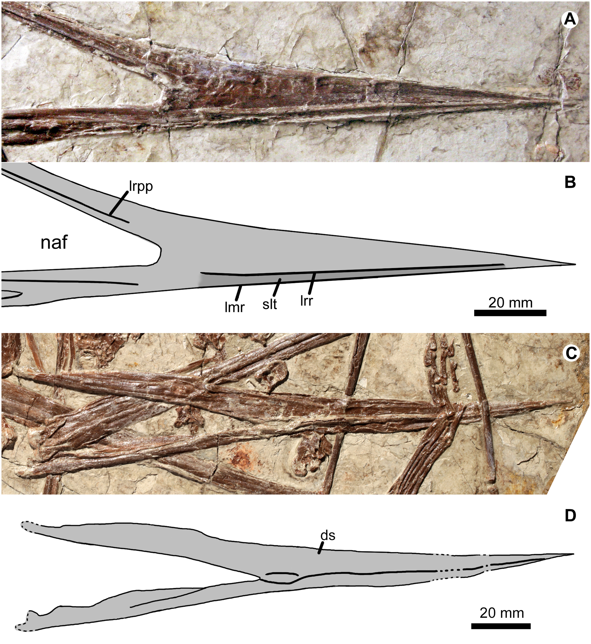 Rostrum of Jidapterus in right lateral view (A, B) and lower jaws mostly in ventral view (C, D) of Jidapterus edentus (RCPS-030366CY). Abbreviations: ds, dentaries; lmr, labial margin of the rostrum; lrpp, a low ridge of the premaxillary process; lrr, a low ridge of rostrum; naf, nasoantorbital fenestra; slt, shallow longitudinal trough. Gray shaded areas bound by solid lines indicate preserved bones and the dark gray area indicates shallow longitudinal trough (slt).